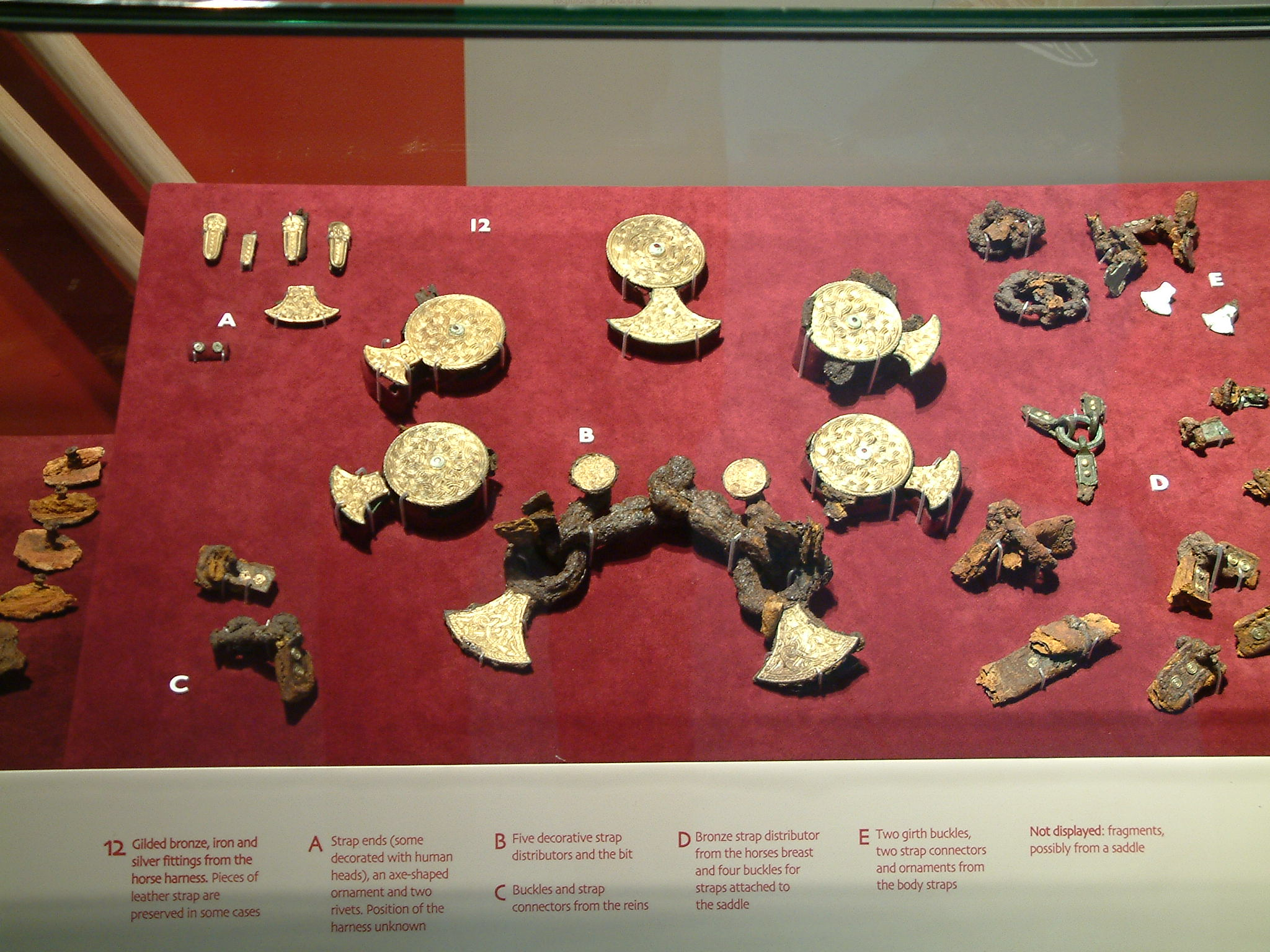 Grave goods from the Sutton Hoo burial mound 17, England.